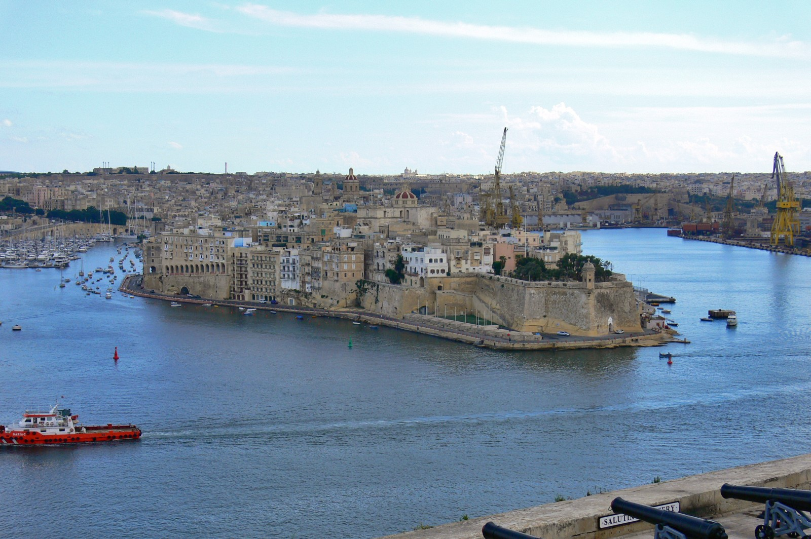 L-Isla (Senglea) seen from Valletta